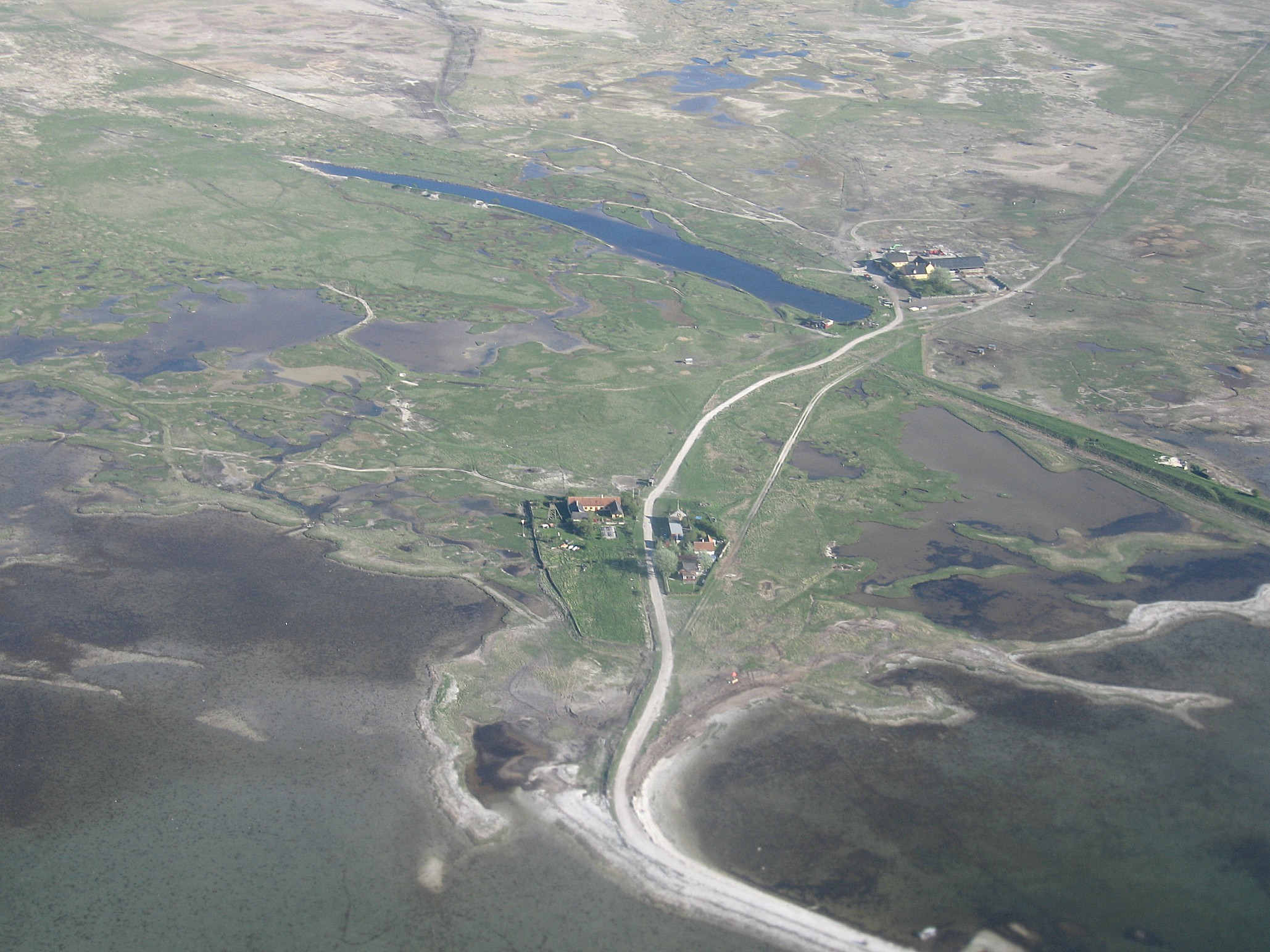 Farm(?) buildings on the little island of Saltholm near Copenhagen.